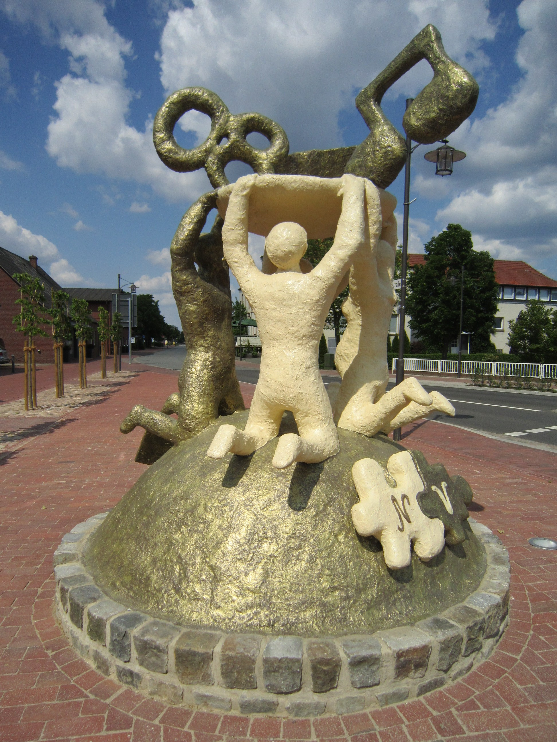 Sculpure "Wir für uns" in Neuenkirchen (Oldenburg)